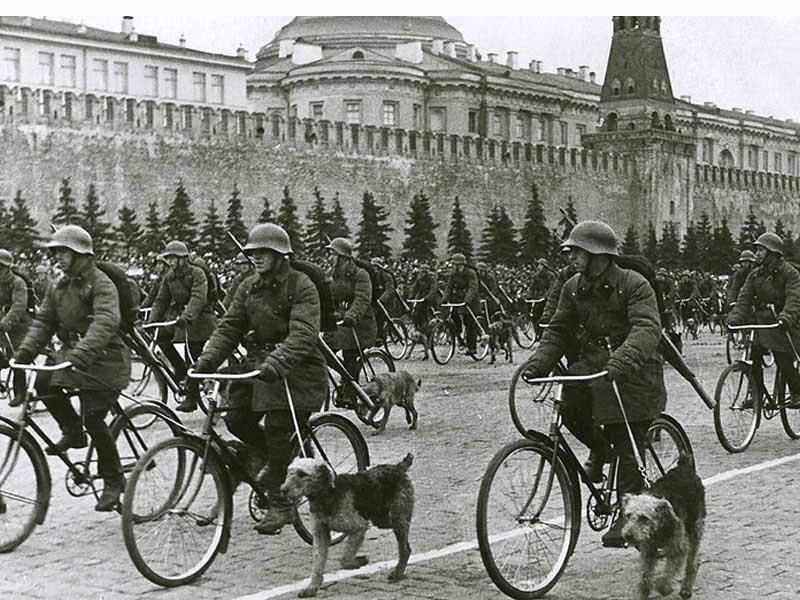 Military bicycle cynologs. Parade on Red square, Moscow, May 1, 1938